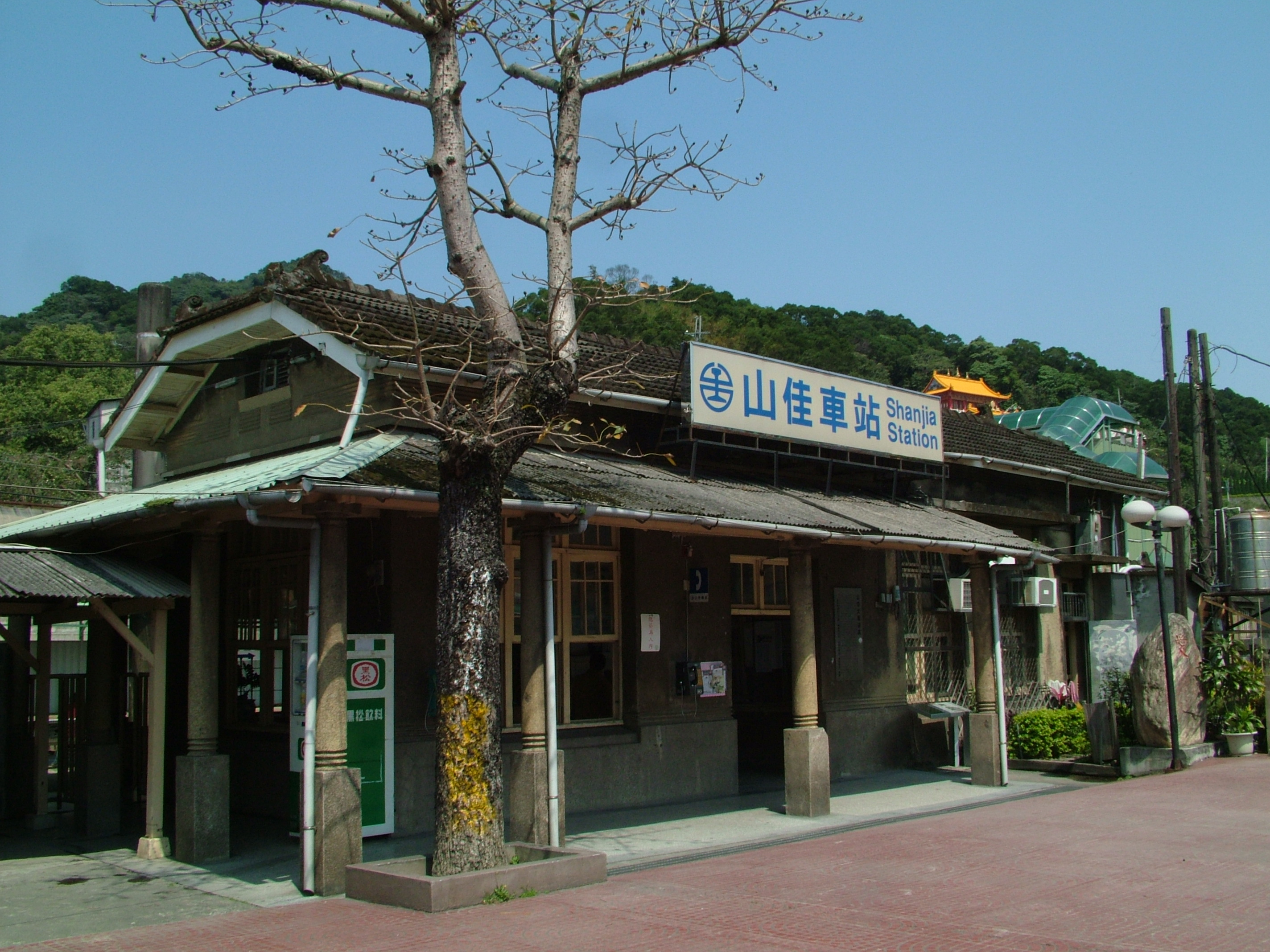 TRA Shanjia Station